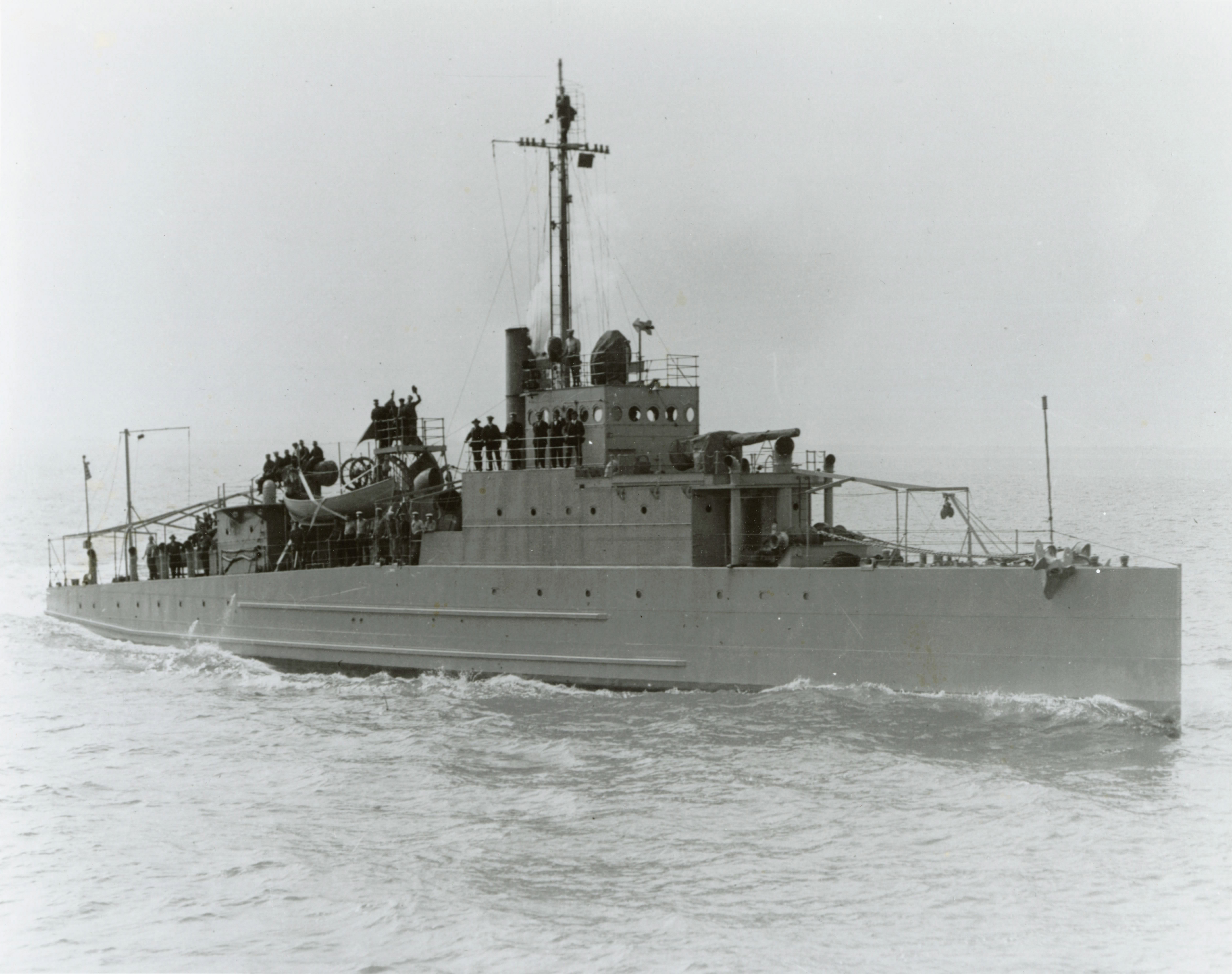 This is the USS Eagle 2 (PE-2) on builder’s trials in 1918. An identical sister ship, USS Eagle 56 (PE-56), was lost due to a mysterious explosion April 23, 1945. Although Eagle 56 survivors stated they had spotted a submarine during the sinking, the official Navy Investigation declared it lost due to a boiler explosion. Through the work of a dedicated researcher and the Naval Historical Center’s senior archivist the Navy changed this to a combat loss in 2002. Both ships were members of 60 Eagle Boats built by automaker Henry Ford for World War I. None of them were completed in time to see service in that war due to the Armistice, November 11, 1918. They were not very popular due to poor sea-keeping characteristics. The Navy discarded all but eight, before World War II. The term Eagle Boat came from a 1917 editorial in the Washington Post that called for an eagle to scour the seas and pounce upon and destroy every German submarine. U.S. Navy photo. (RELEASED) 030415-N-0000X-001 Naval Historical Center, Washington, DC (Apr. 15, 2003)